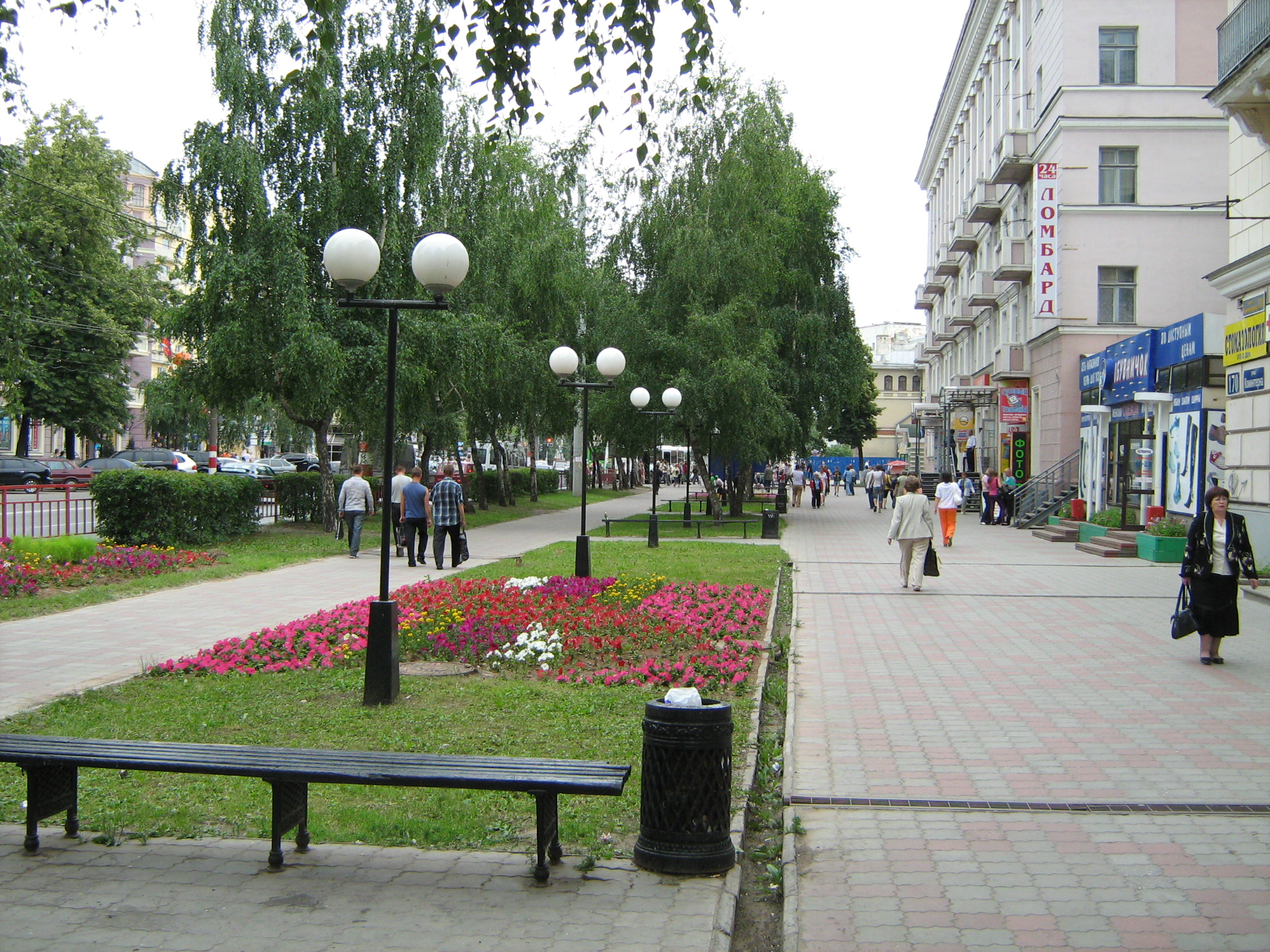 Komintern St in central Sormovo